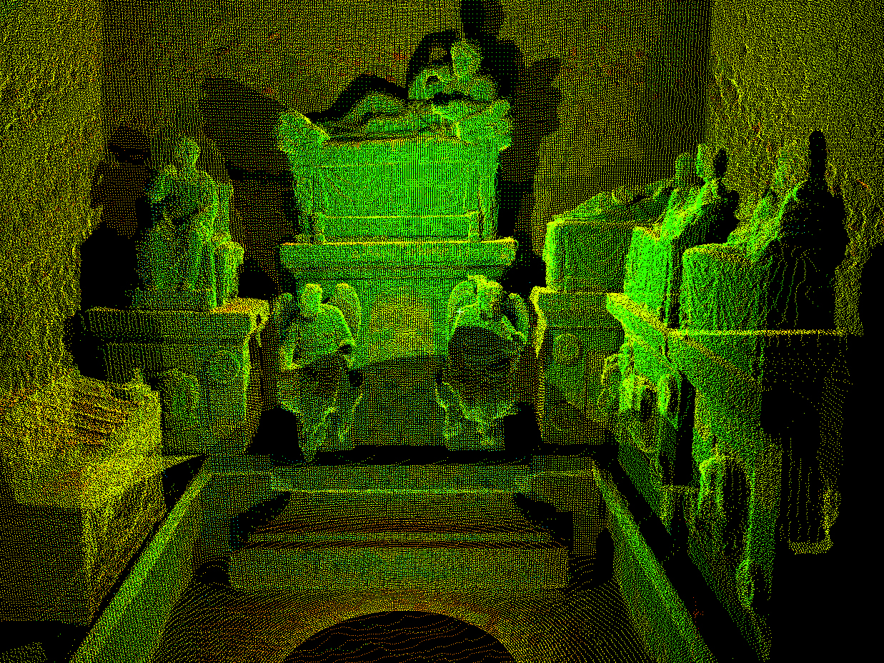 3D view of the Tablinum in the Hypogeum of the Volumnis, Perugia, Italy, cut from a laser scan. The chamber in the privileged position, opposite the stair along the axis of the atrium, is analogous to the tablinum, or master`s study, where family records and deities resided. This chamber contains seven travertine cinerary urns, some covered with stucco, as well as sculptures in sandstone, terracotta, and marble. These sculptures depict not only the individuals interred in the tomb, but also mythological beasts such as Gorgons and serpents, which represent the Furies and demons in Etruscan belief systems. In the center stands the highly decorated crypt of Arnth Velimna, who is commemorated in the inscription on the doorpost of the entrance as one of the founders of the tomb. While most of these Velimna family effigies date from the pre-Roman period, one has an inscription in Latin and is thought to be from the early years under Roman rule, when local mortuary traditions were still being observed.